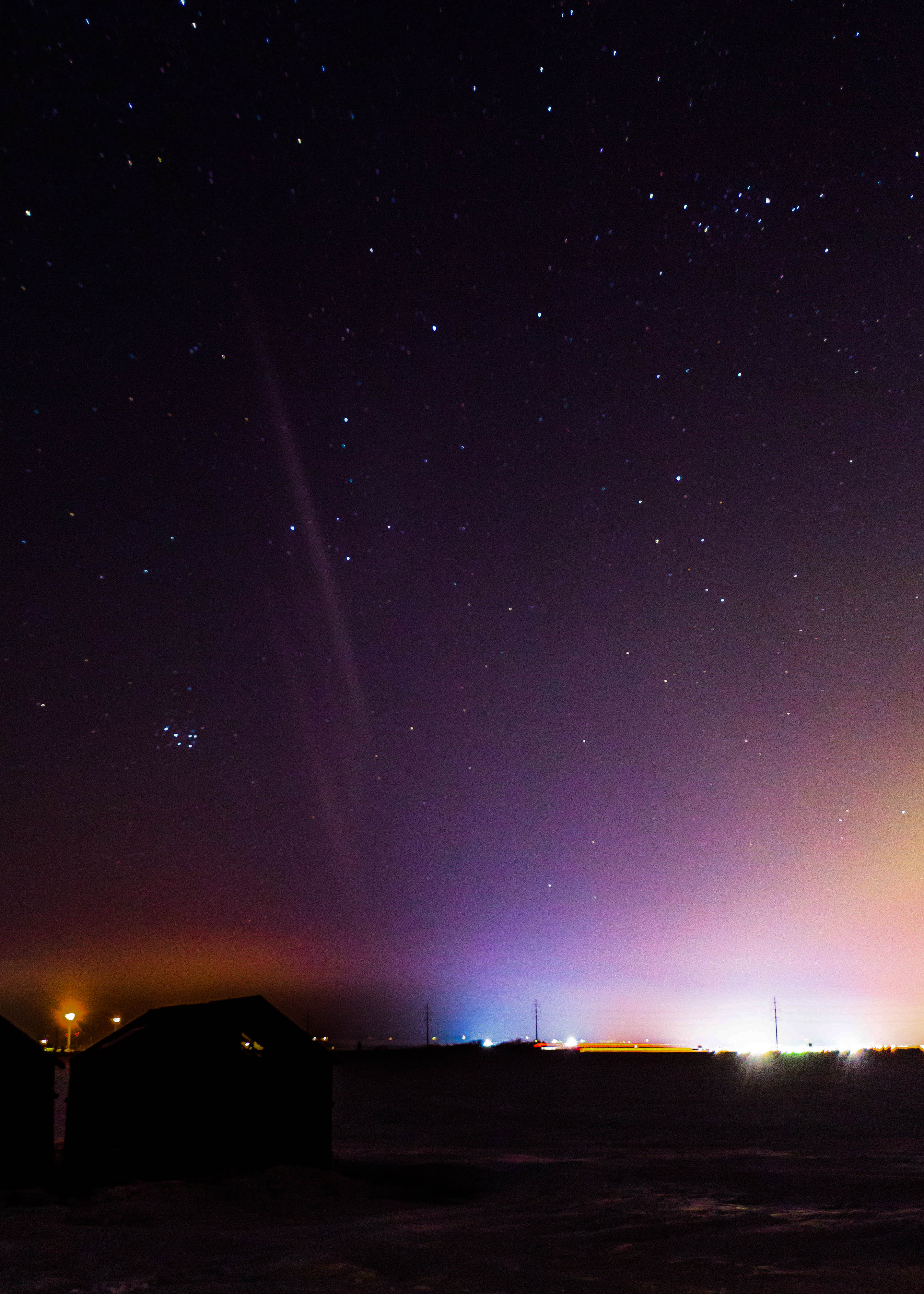 STEVE (Strong Thermal Emission Velocity Enhancement) was spotted for about 30 minutes over Crossfield, Alberta, Canada. This picture (or video) was taken at approximately 12:30am local time on March 10, 2018. Image Courtesy Chris Ratzlaff Read more: NASA image use policy NASA Goddard Space Flight Center enables NASA’s mission through four scientific endeavors: Earth Science, Heliophysics, Solar System Exploration, and Astrophysics. Goddard plays a leading role in NASA’s accomplishments by contributing compelling scientific knowledge to advance the Agency’s mission.